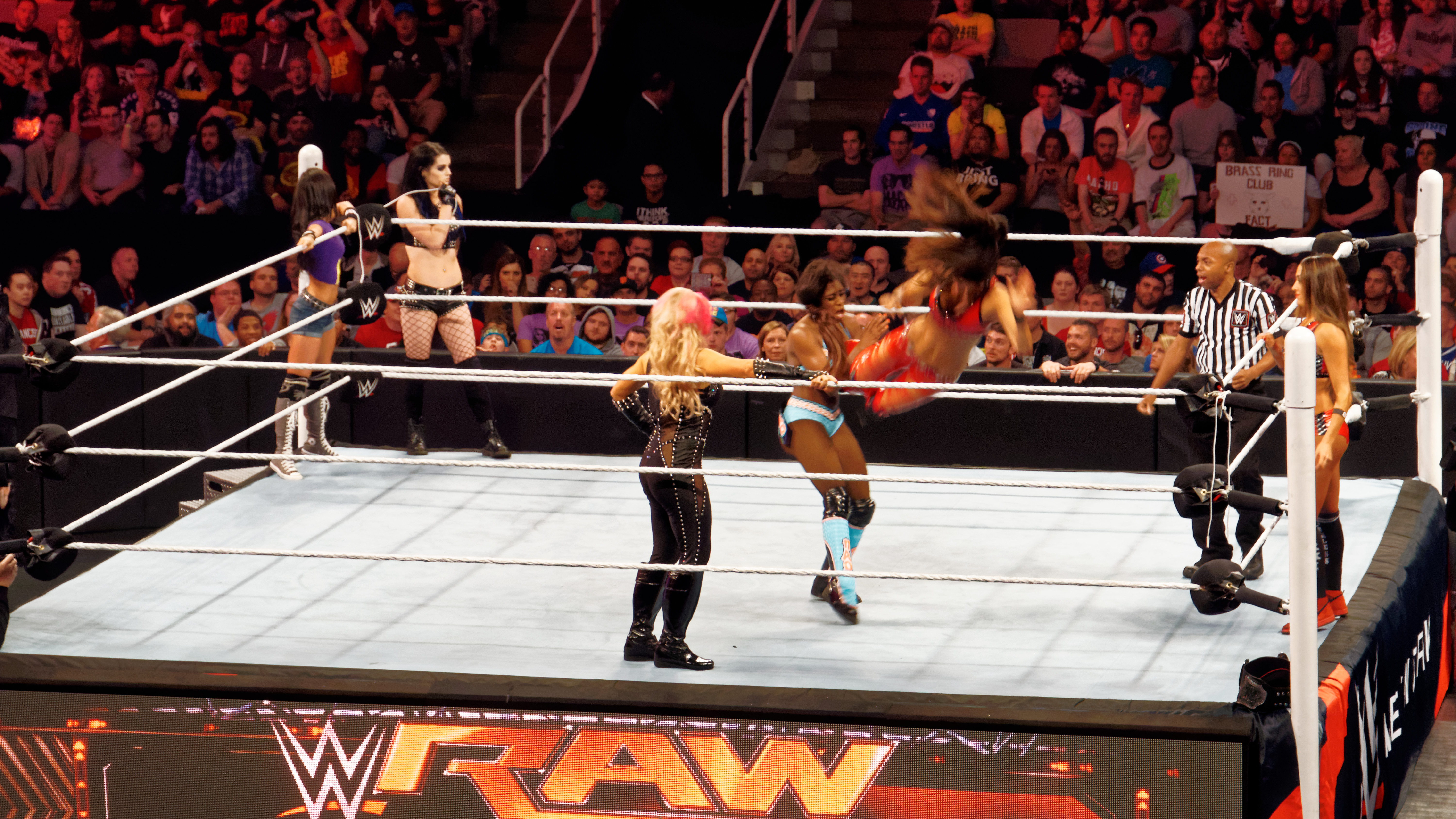 The raw everyboding is waiting for ... The One after Wrestlemania